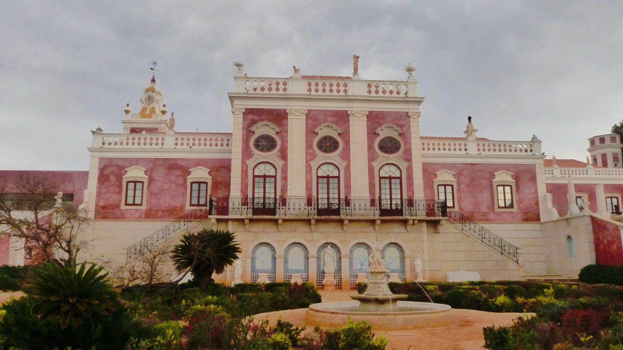 Palacio de Estoi. The Palace of Estoi is a rococo building renowned for its gardens and azulejos (blue and white tiled ceramic). The palace was built in the late 19th century and is the finest example of this kind of architecture in the district of Faro. If you like my photos please help support my hobby and click on my video and watch it.. Many Thanks Peter